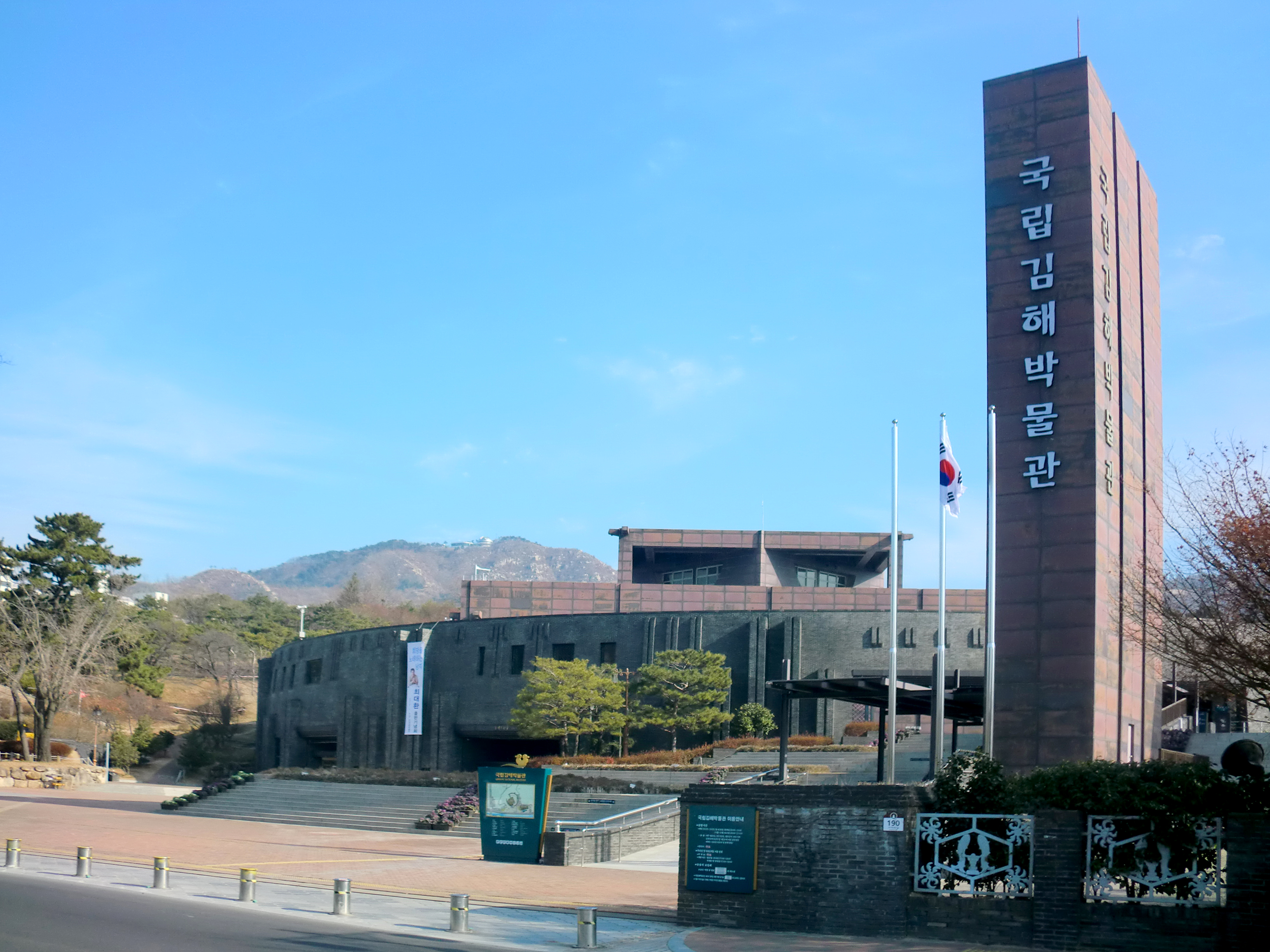 National Gimhae Museum in Gimhae-si, Gyeongsangnam-do.